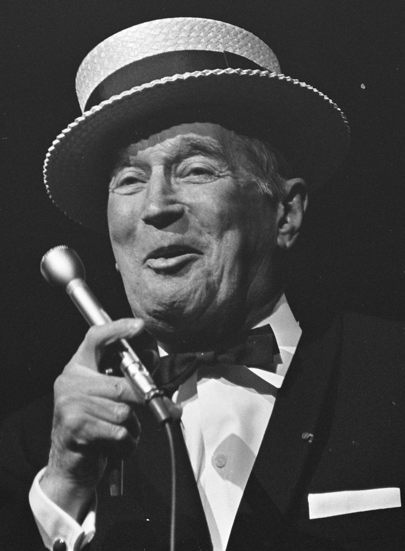 Maurice Chevalier's last concert in the Netherlands: Concertgebouw Amsterdam, 9 Febr. 1968